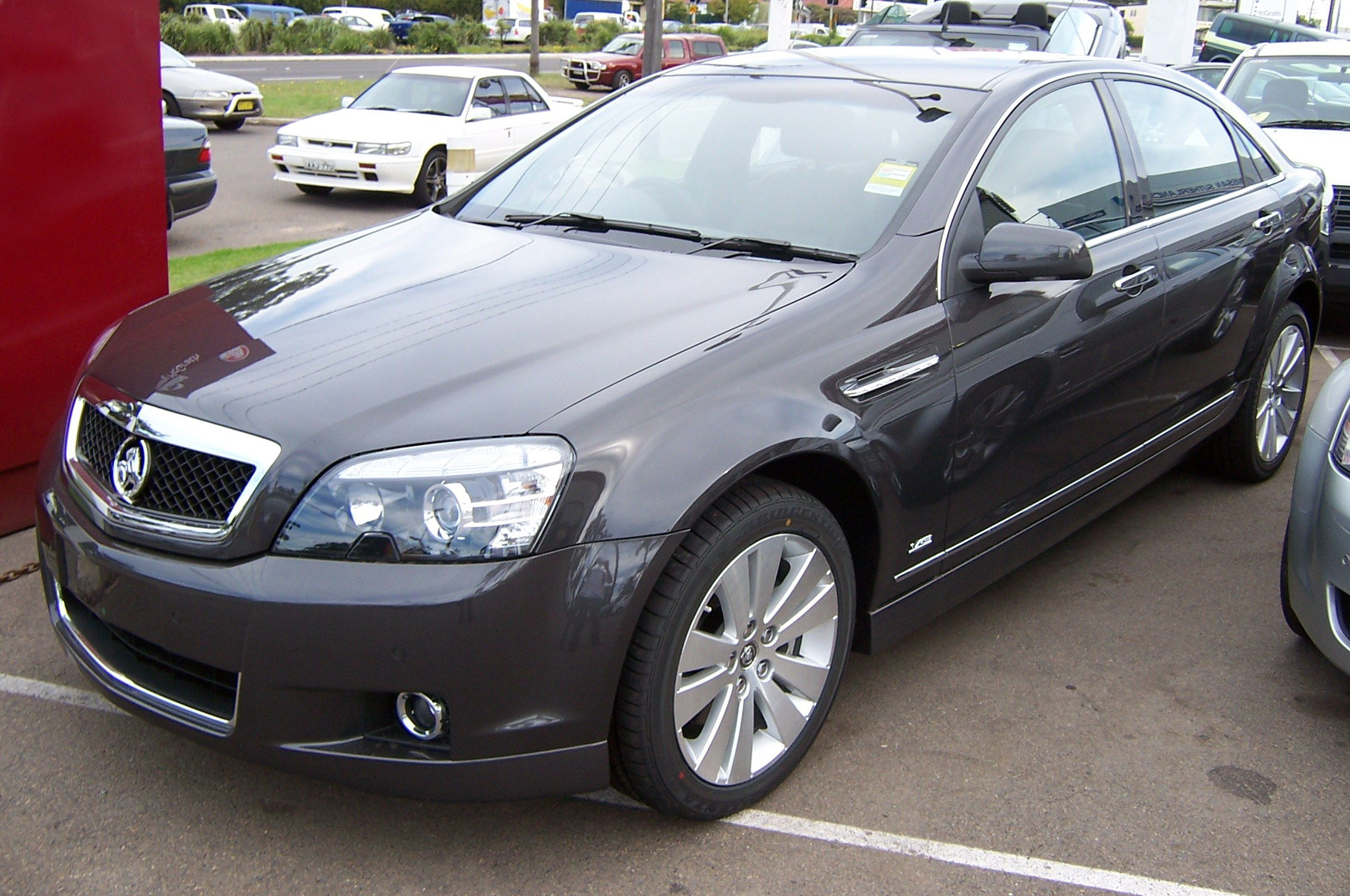 2006–2007 Holden Caprice (WM MY07) sedan. Photographed at McGrath Sutherland Holden, Kirrawee, New South Wales, Australia.